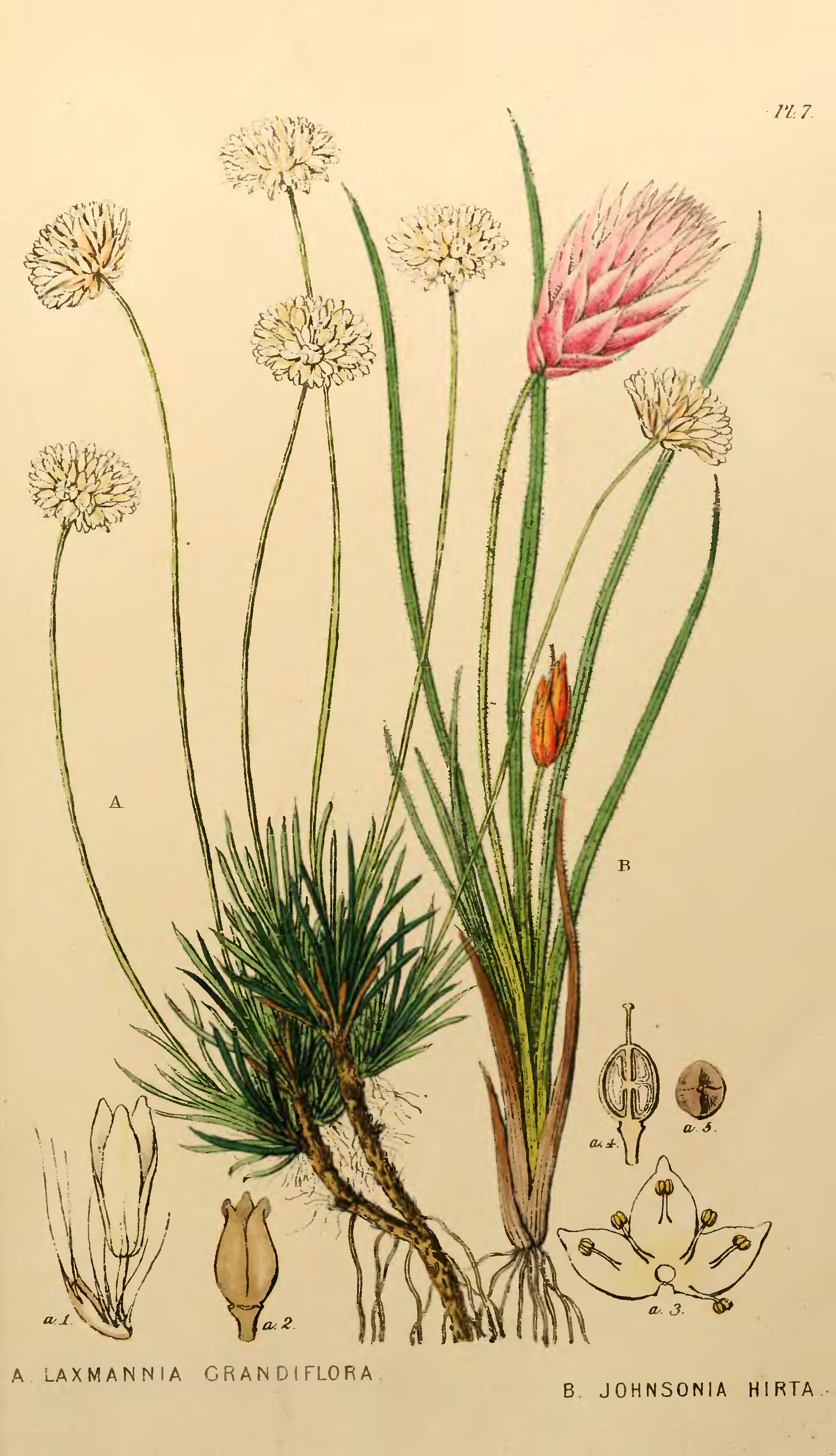 This is a plate from A sketch of the vegetation of the Swan River Colonyby John Lindley. The plants depicted are Laxmannia grandiflora and Johnsonia hirta (now Johnsonia pubescens).